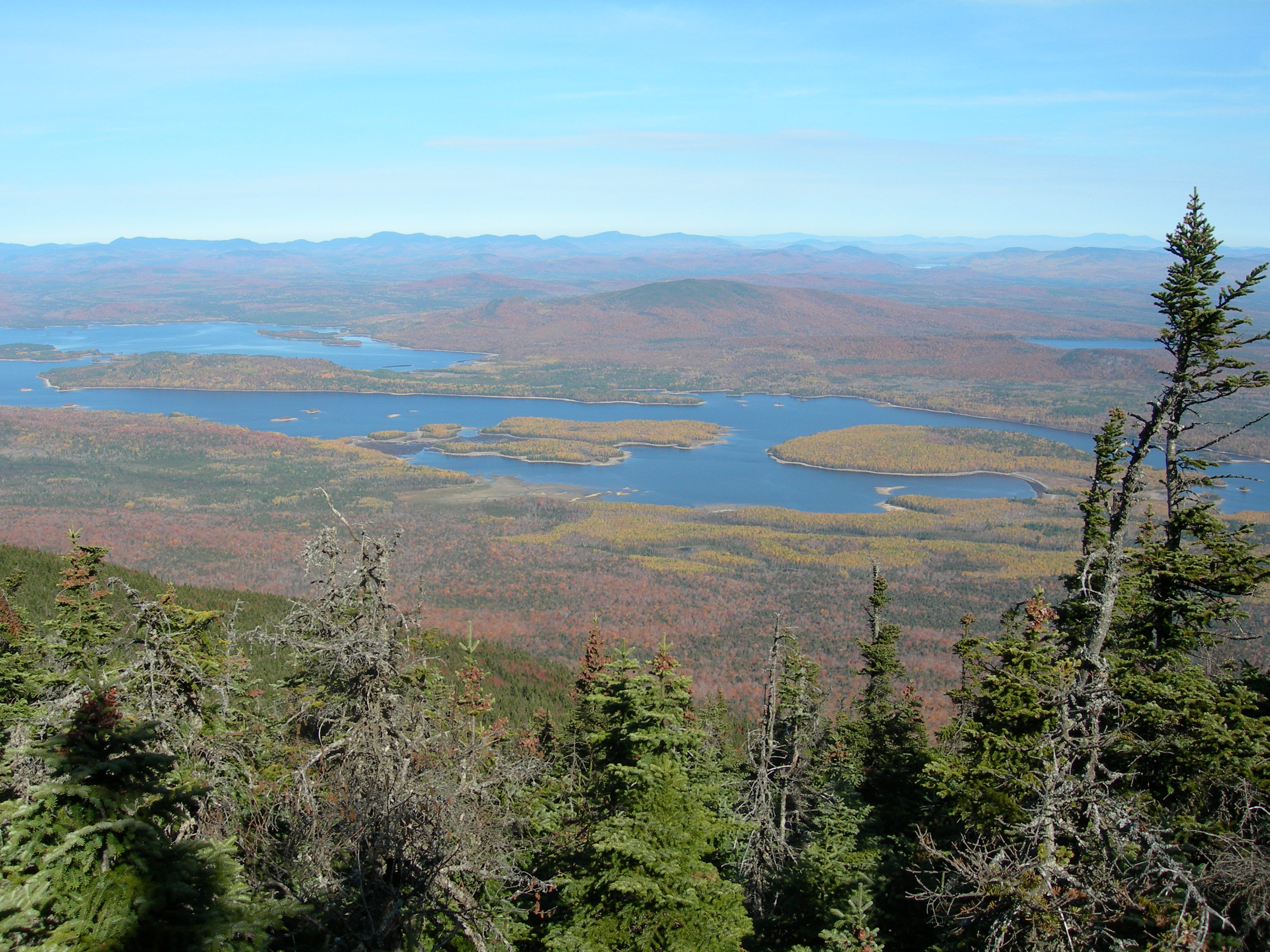 Northwest corner of Flagstaff Lake, Maine